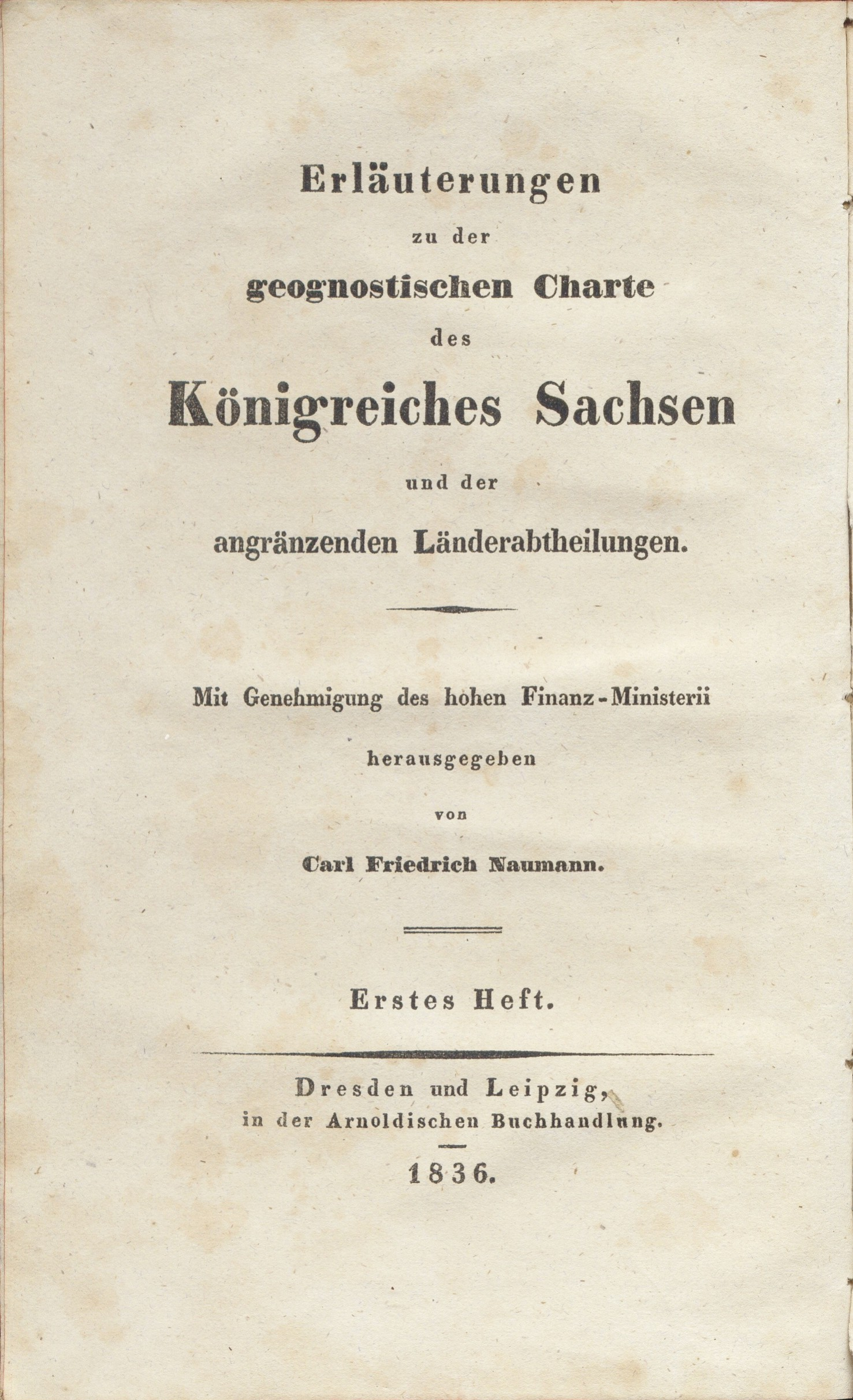 Carl Friedrich Naumann: Erläuterungen zu der geognostischen Charte des Königreichs Sachsen und der angränzenden Länderabtheilungen. Dresden/Leipzig 1836 (title page from the first part of his work)